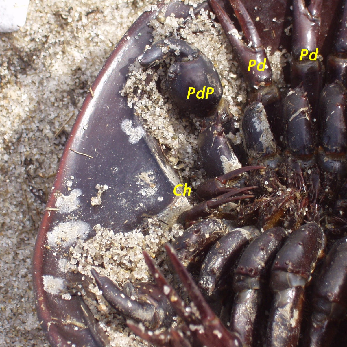 Male Horseshoe Crab from below: Ch - chelicerae, PdP - pedipalpi (modified to grasp females during copulation), Pd - walking legs.